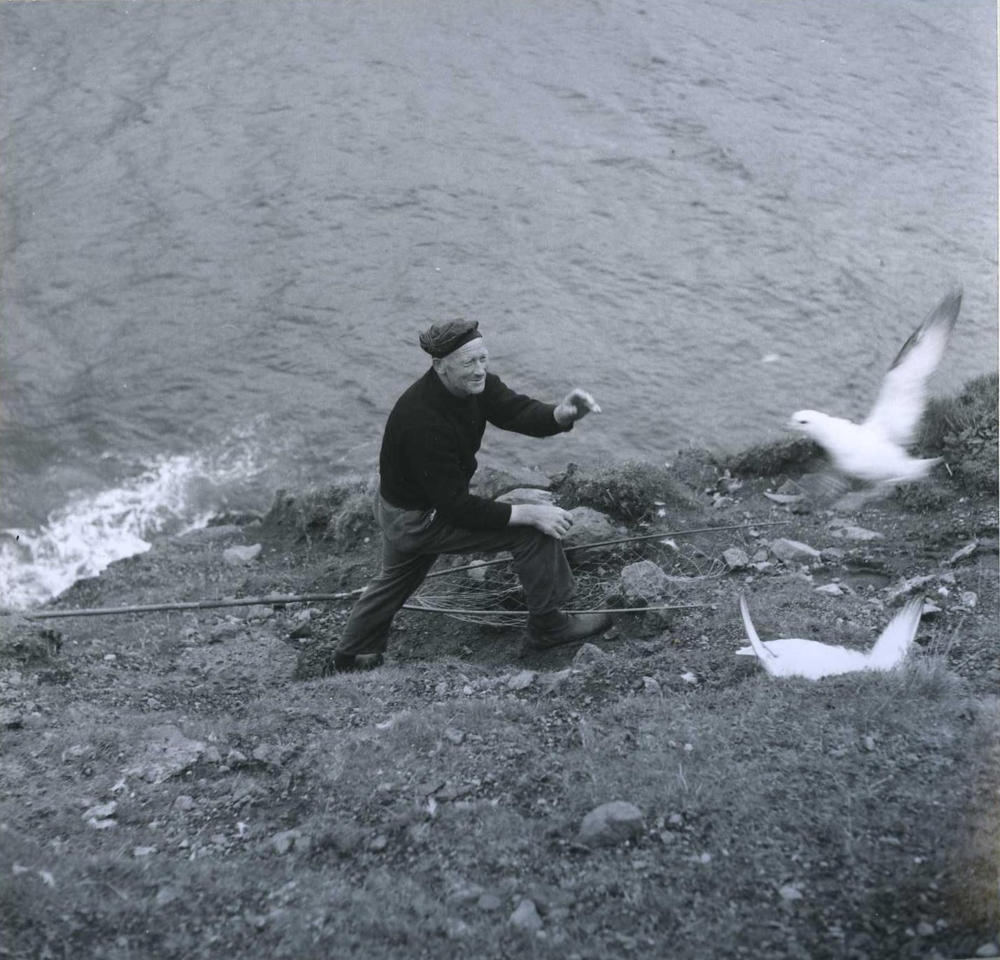 Hunter Simon Frederiksen hunting for seabirds at Gjotangi, north of Múli, Faroe Islands.